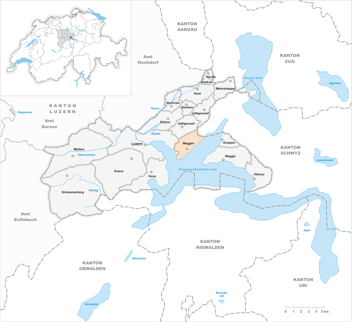 Municipality Meggen